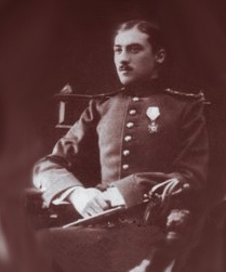 Russian Major General Nikolay W. Shinkarenko (1890-1968)